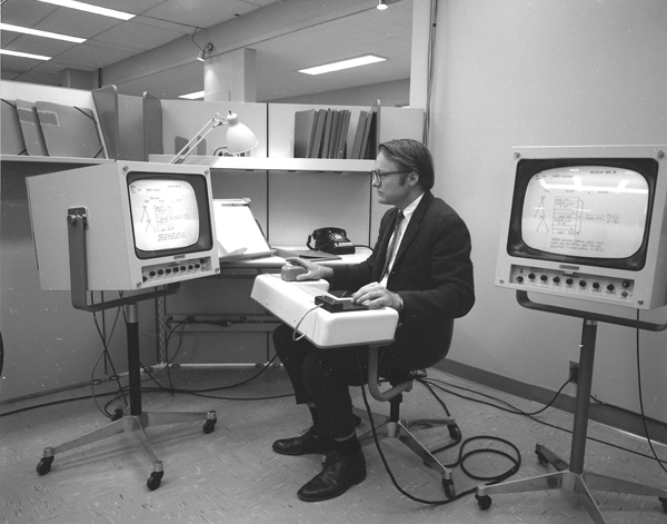 SRI’s Bill English, engineer who built the first computer mouse prototype, prepares for the December 9, 1968 "mother of all demos"